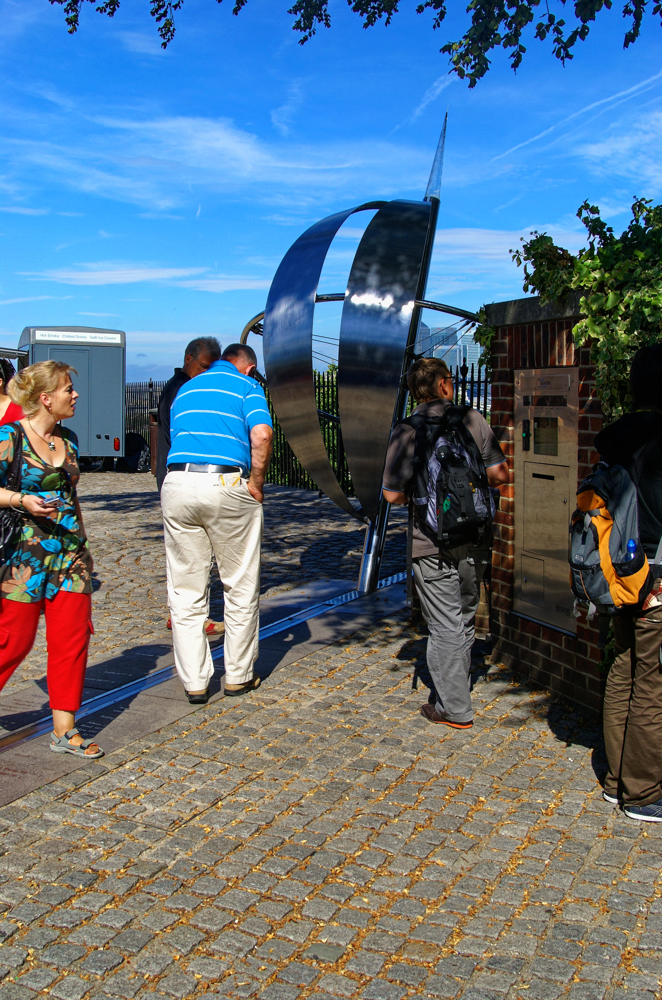 Greenwich - Royal Observatory - View NW on Prime Meridian of the World